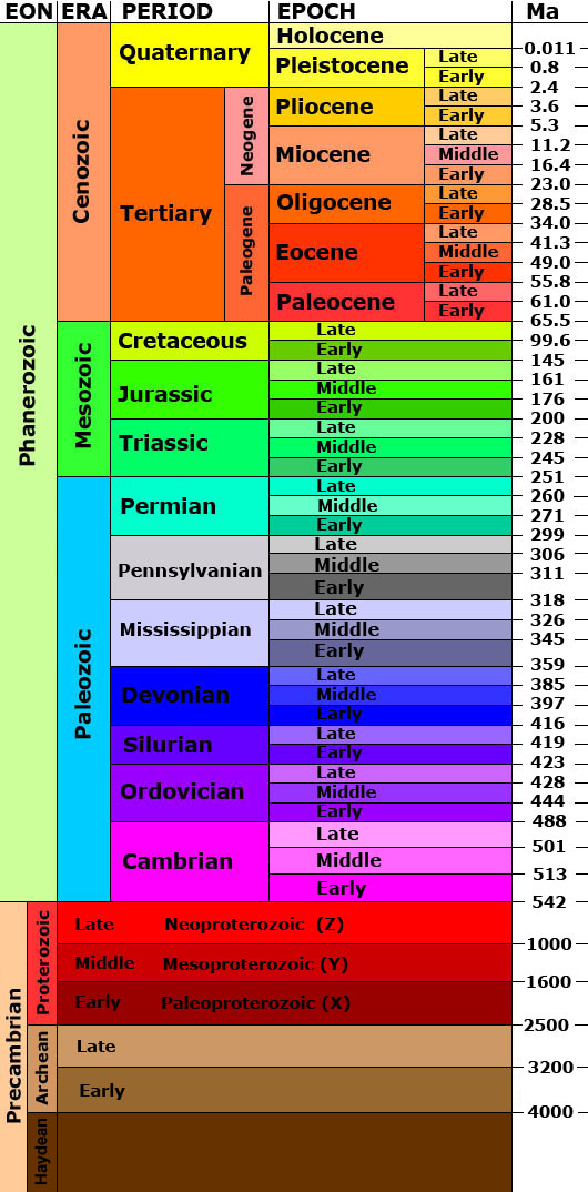 Geologic time scale covering the Precambrian and Phanerozoic eons with detail down to the epoch.